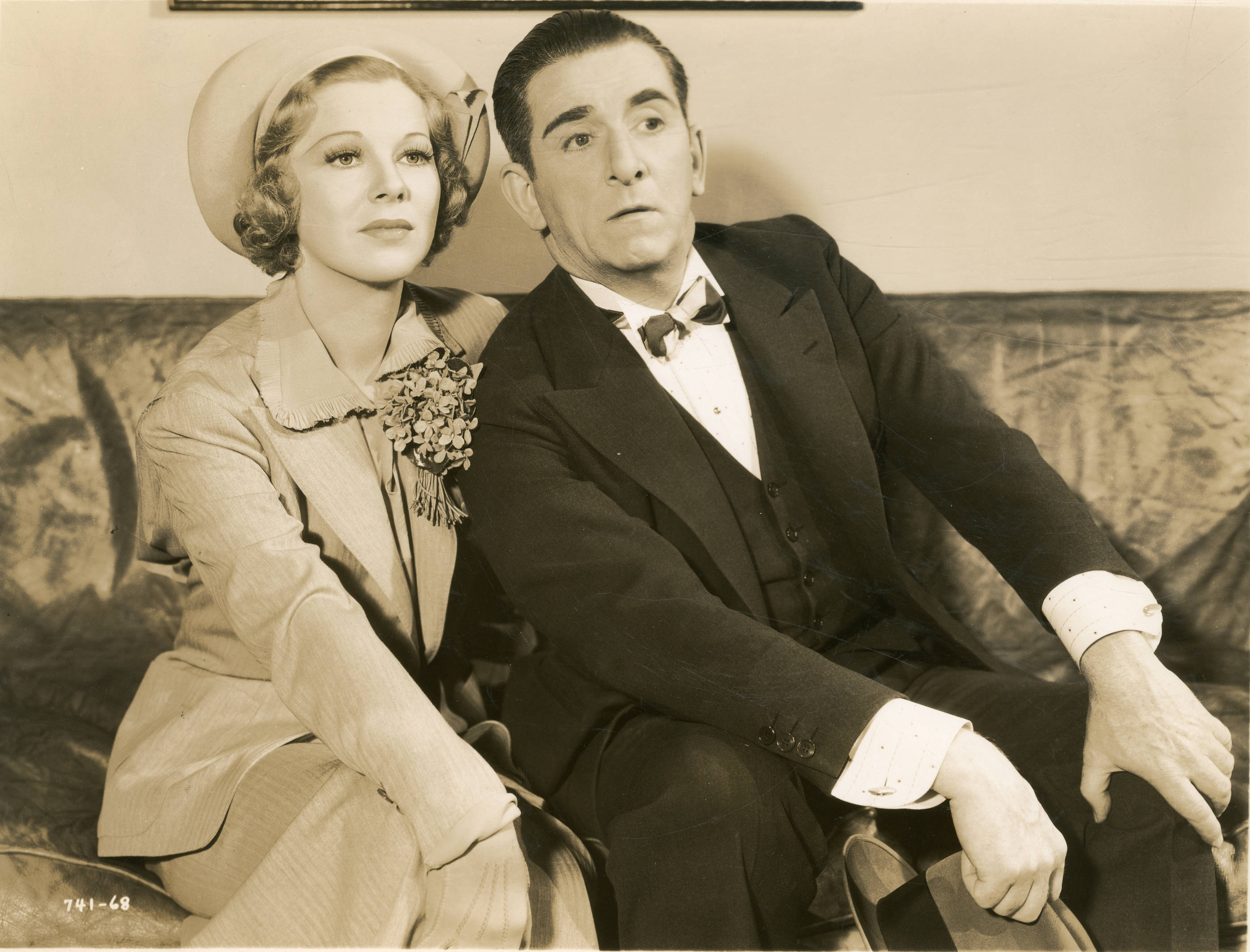 A scene from the American comedy film Nobody's Fool (1936) with Edward Everett Horton. Subjects: motion pictures, actors